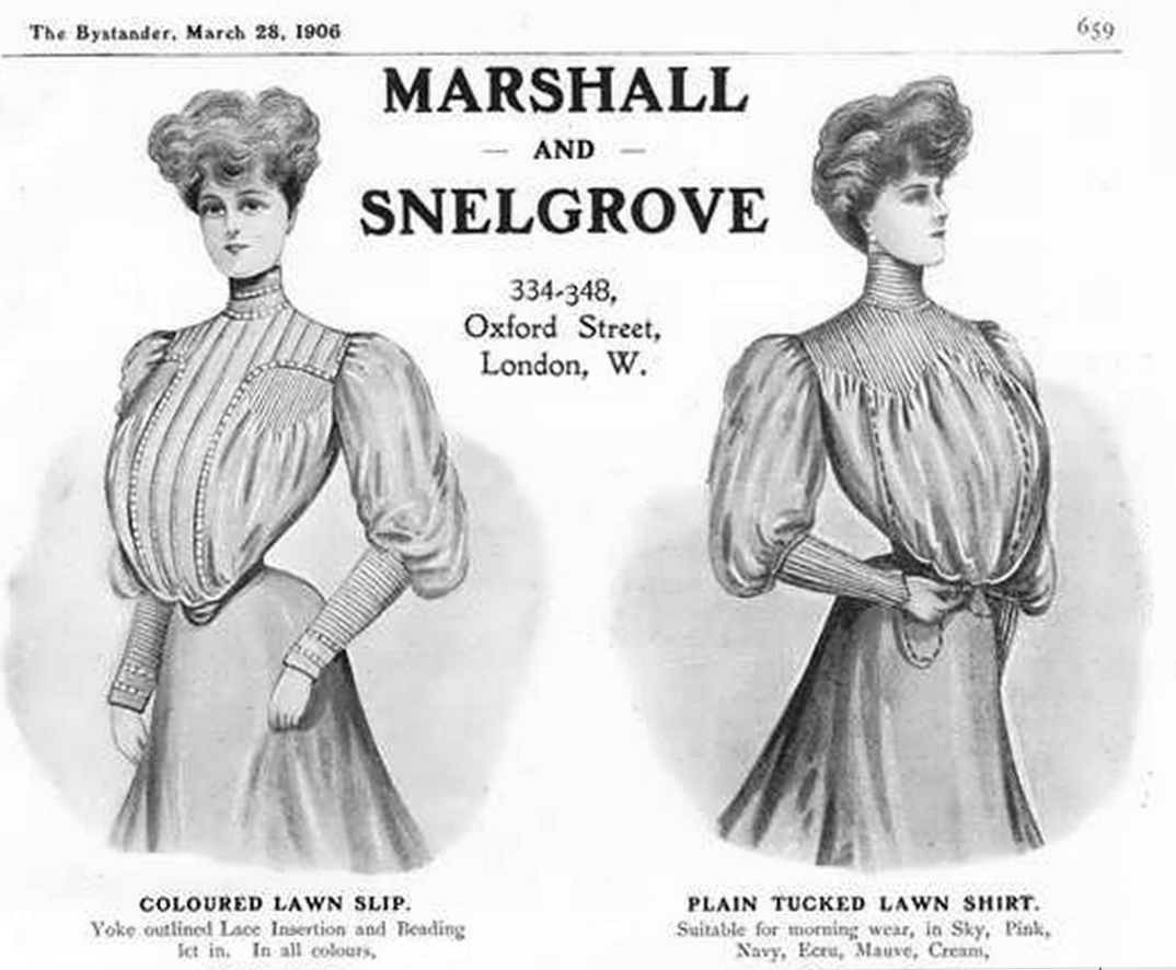 Advertisement in 1906 store catalogue